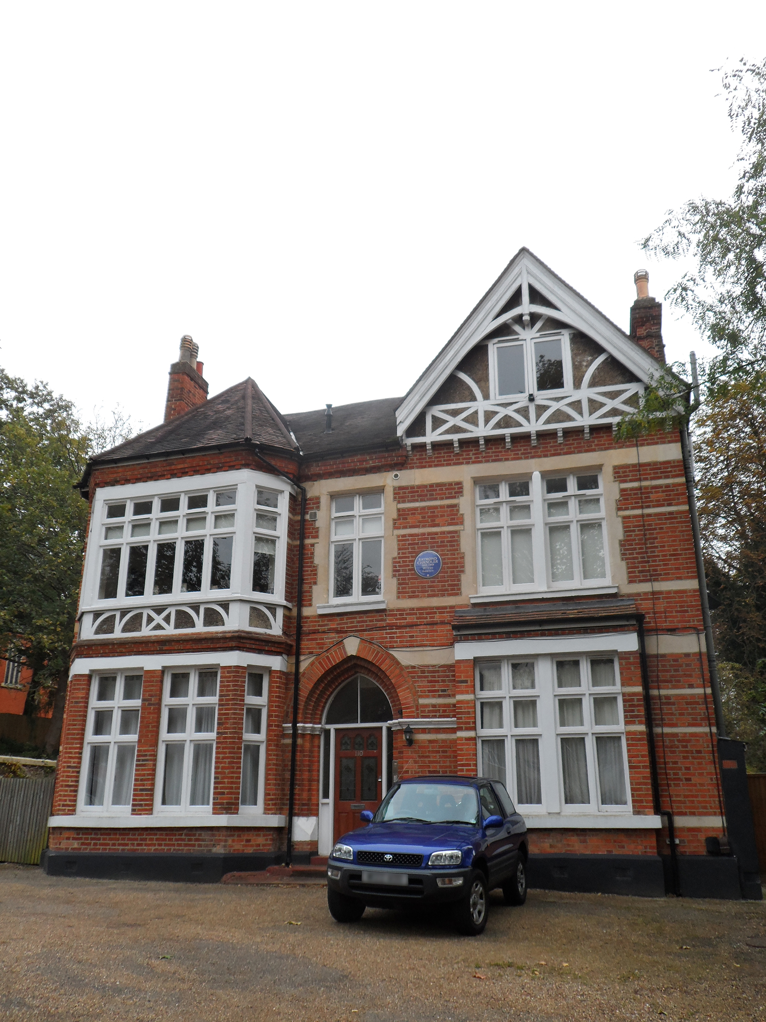 Blue plaque erected by English Heritage at 110 Auckland Road, London SE19 2BY 7th October 2014